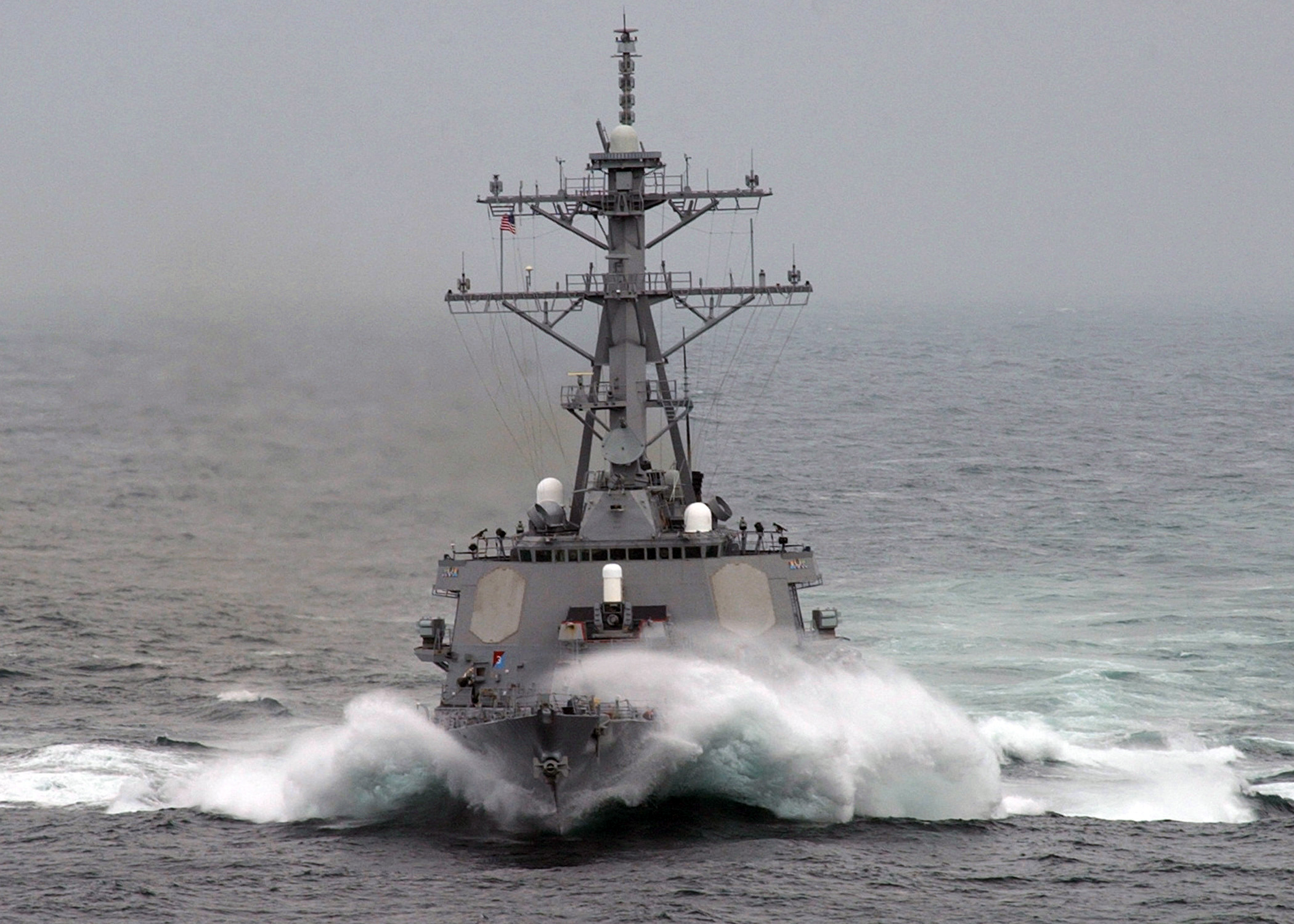 Mediterranean Sea (Apr. 2, 2005) - Waves crash over the bow of the Arleigh-Burke-class guided missile destroyer USS Barry (DDG 52) as she plows through heavy seas while underway in the Mediterranean Sea. Barry, assigned to the USS Harry S. Truman (CVN 75) Carrier Strike Group, was recently relieved after completing nearly four months in the Persian Gulf in support of the Global War on Terrorism. U.S. Navy photo by Photographer’s Mate Airman Philip V. Morrill (RELEASED)